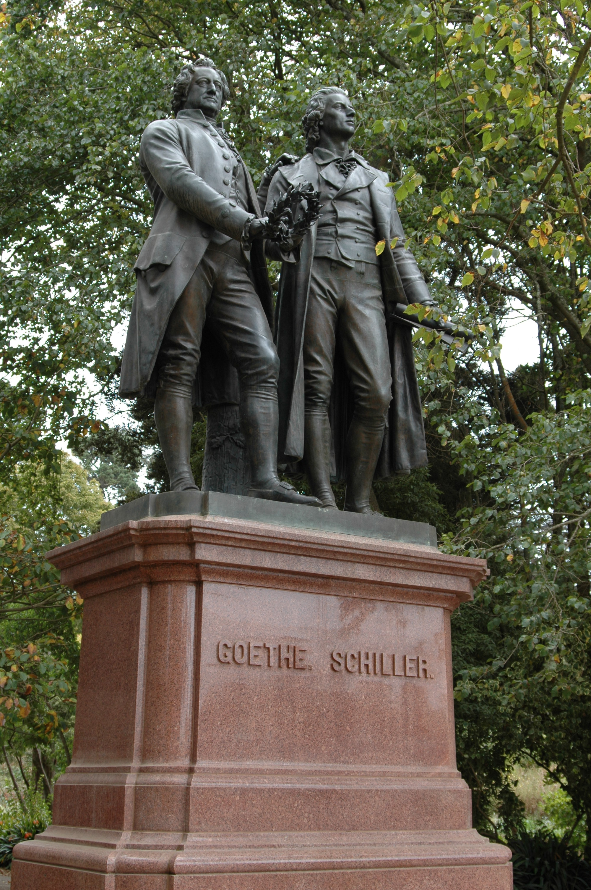 Goethe Schiller Monument in San Francisco